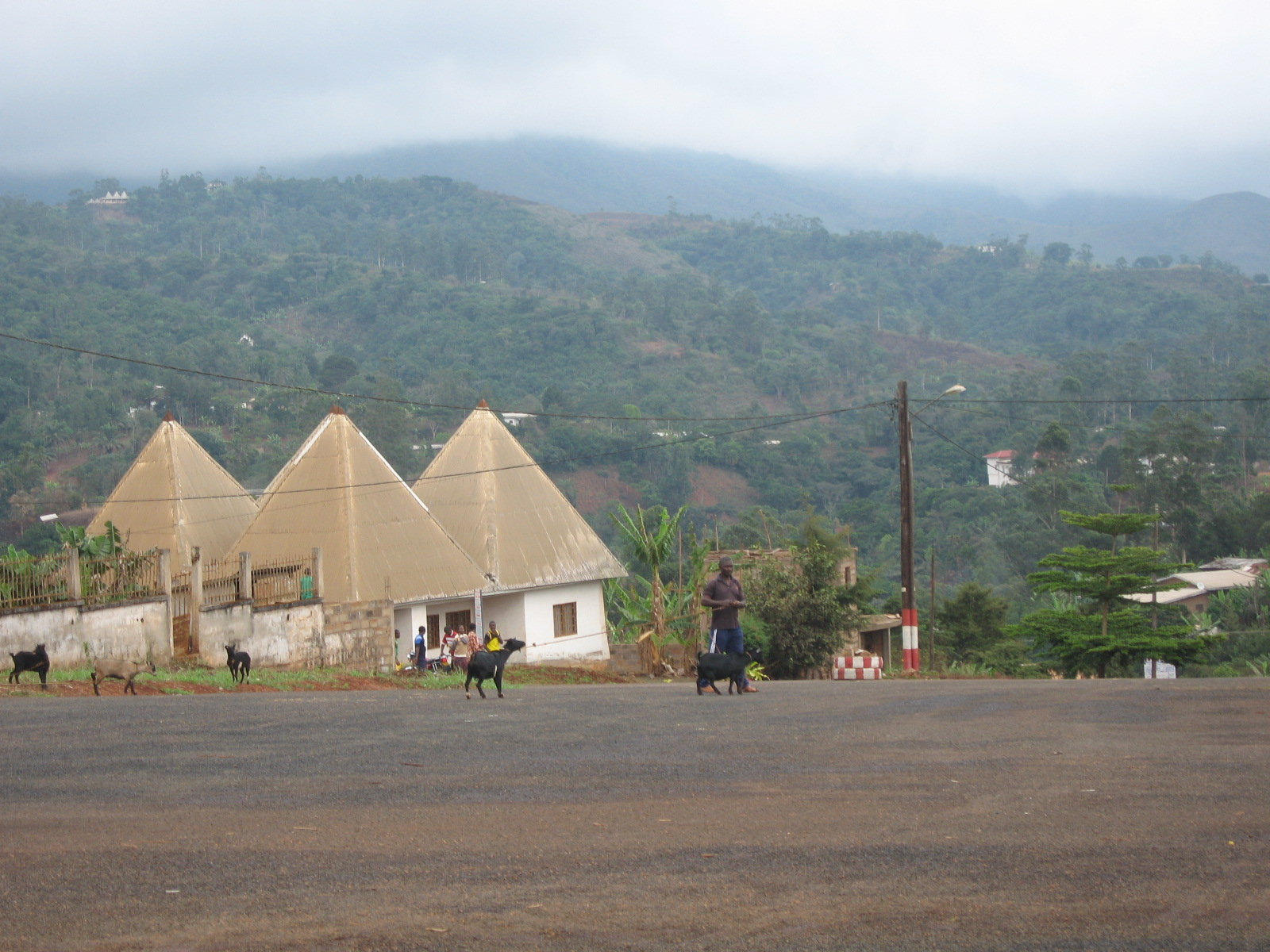 Road at Bana, Cameroon